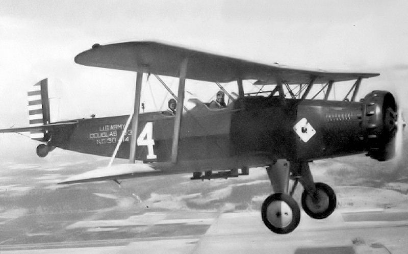 116th Observation Squadron -Douglas O-38 30-414. 30-414 and 30-413 were destroyed in a midair collision with near Boise, ID Jun 13, 1933. Both pilots were killed.